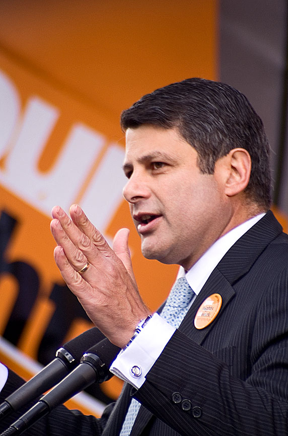 Taken by Anthony Agius